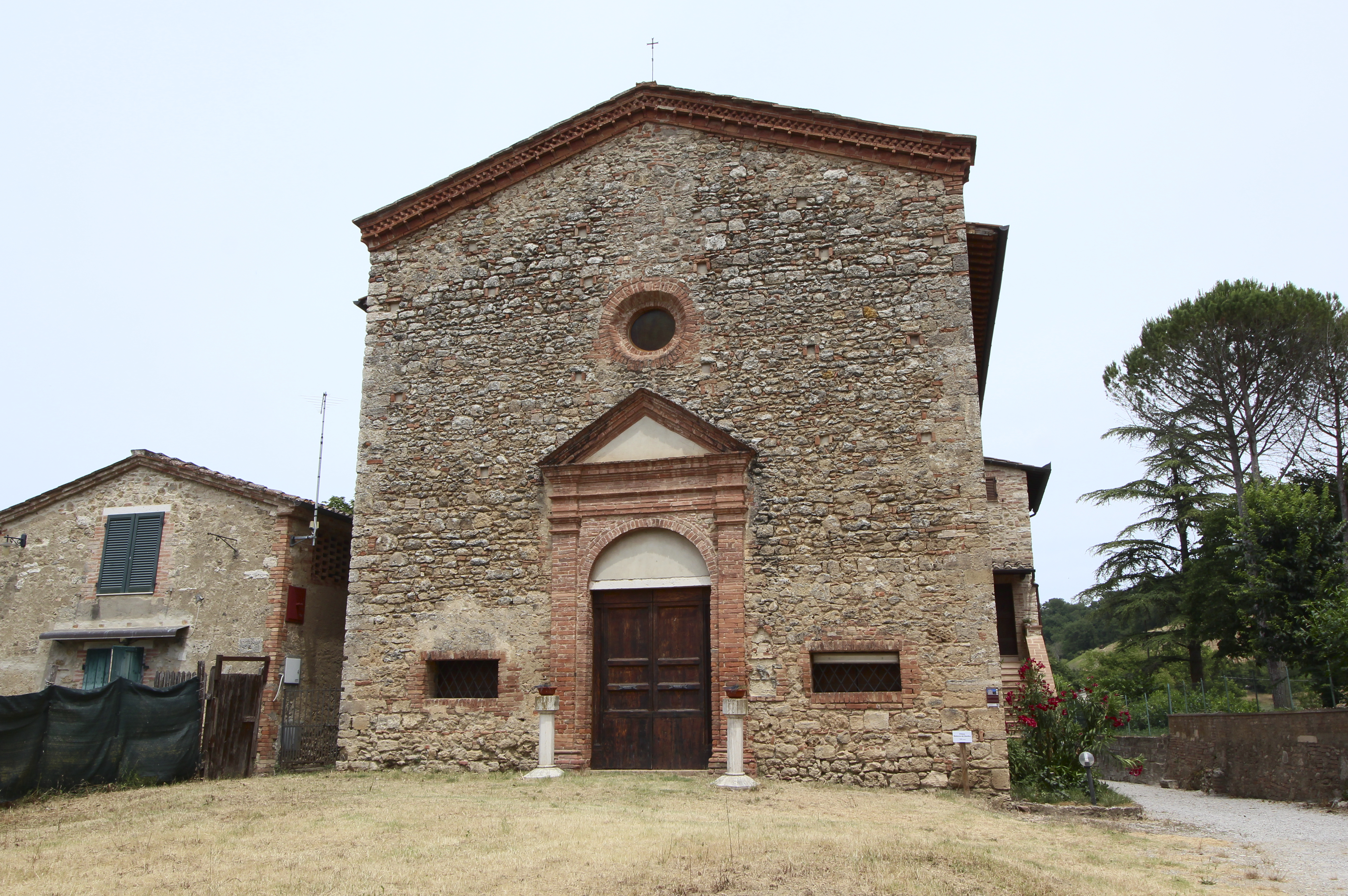 Church Madonna del Giardino, Camparboli, just outside the City Center of Asciano, Province of Siena, Tuscany, Italy